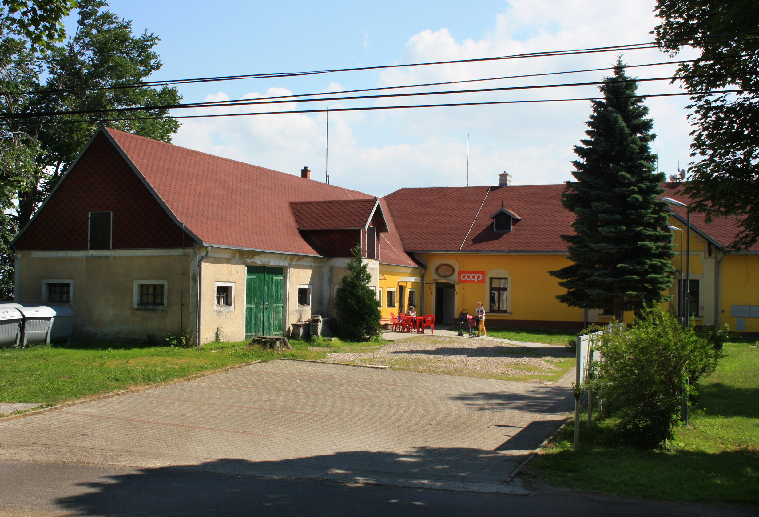 Blatno Castle at Blatno, Czech Republic